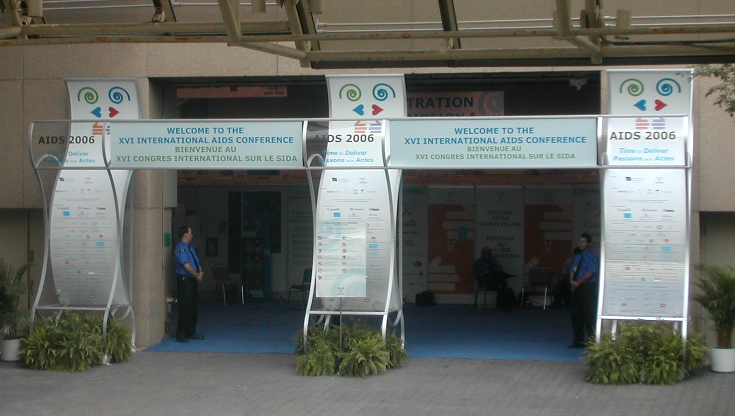 XVI International AIDS Conference, 2006, entrance of the Metro Toronto Convention Centre near Front and Peter Sts., Toronto, Ontario.